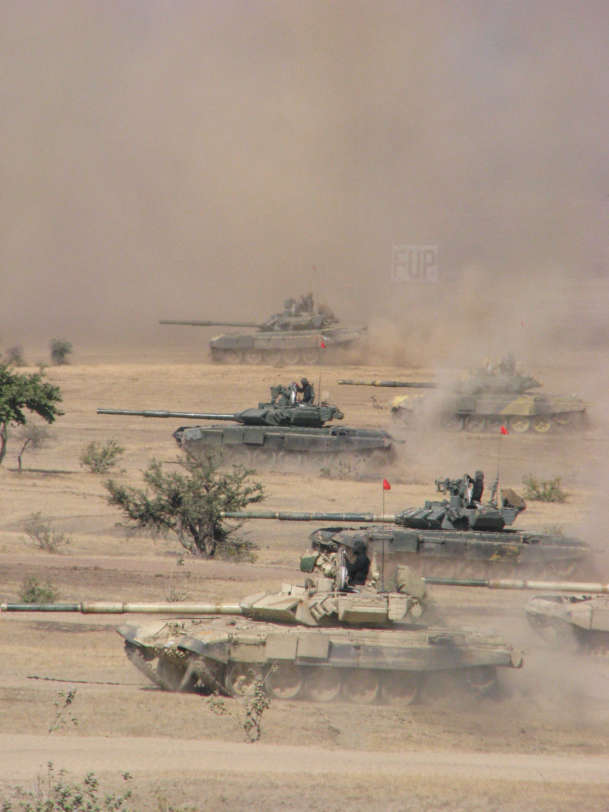 Indian Army's T-90 tanks in action.